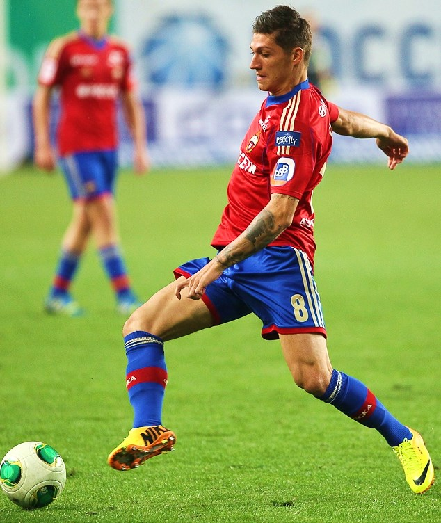 Steven Zuber1